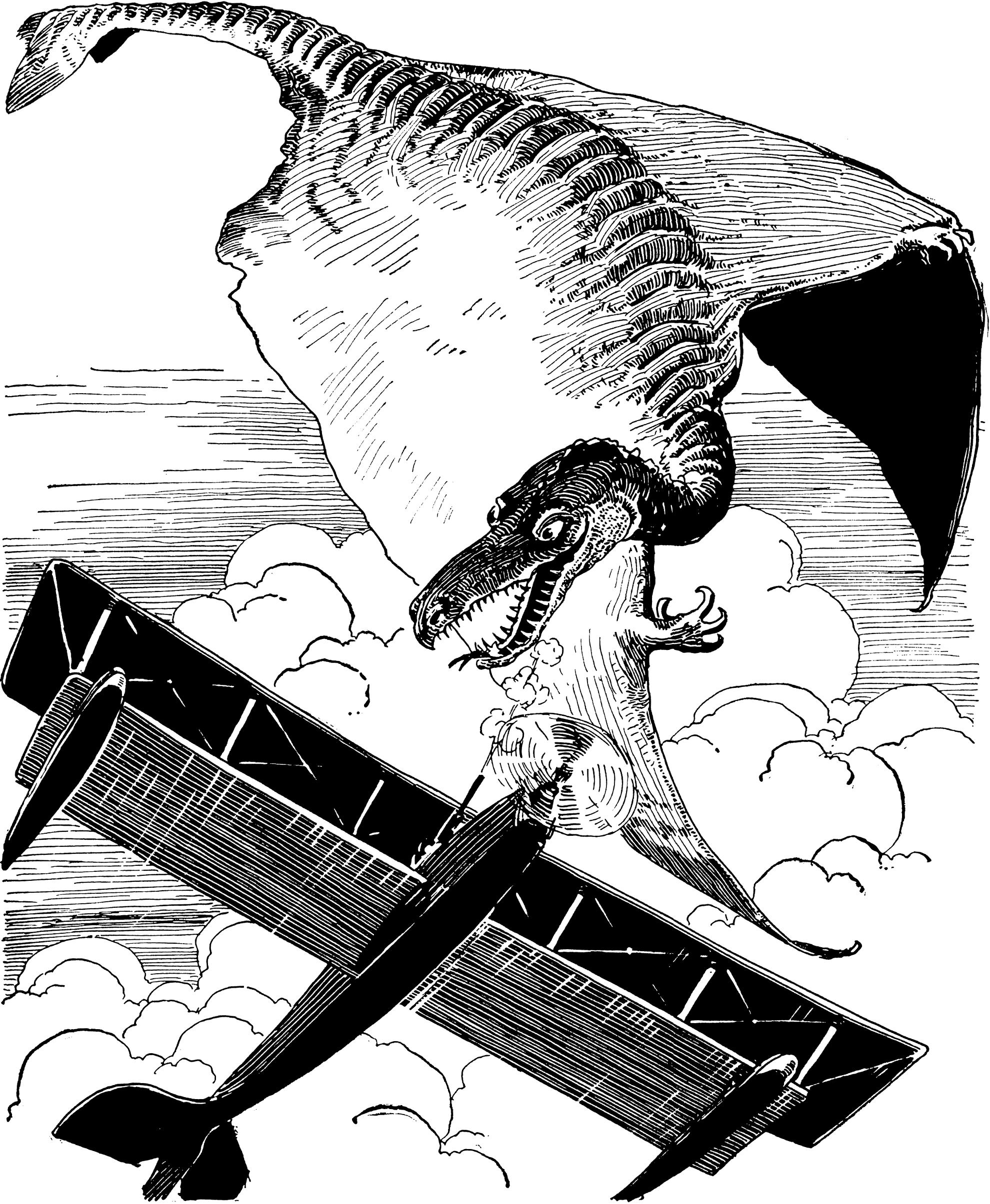 An illustration for Edgar Rice Burroughs' The Land that Time Forgot from Amazing Stories v1n12 p. 1138.